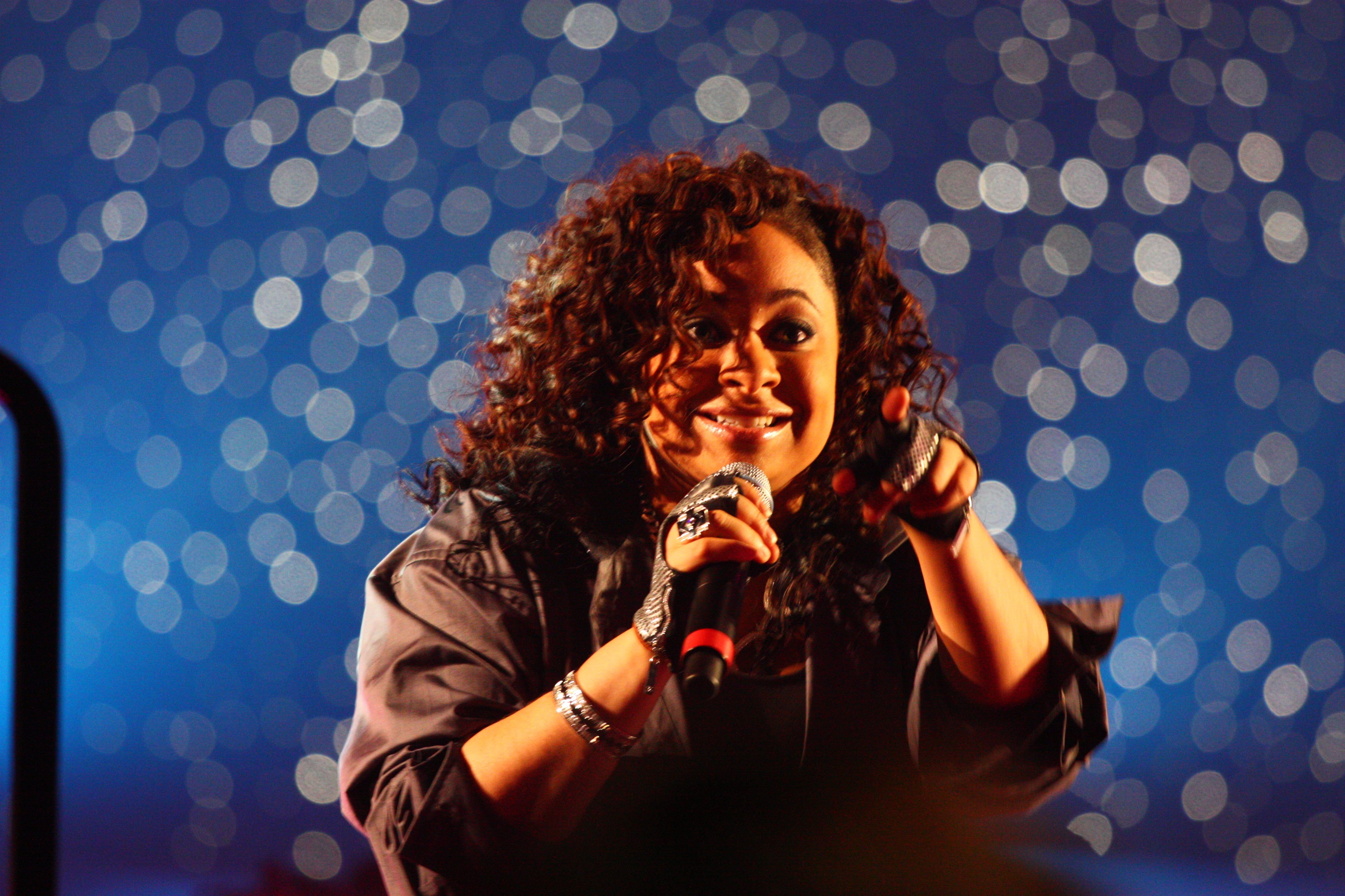 Raven-Symoné performing at the Disson Skating & Gymnastics Spectacular in Rapid City, SD, Dec 23, 2008.